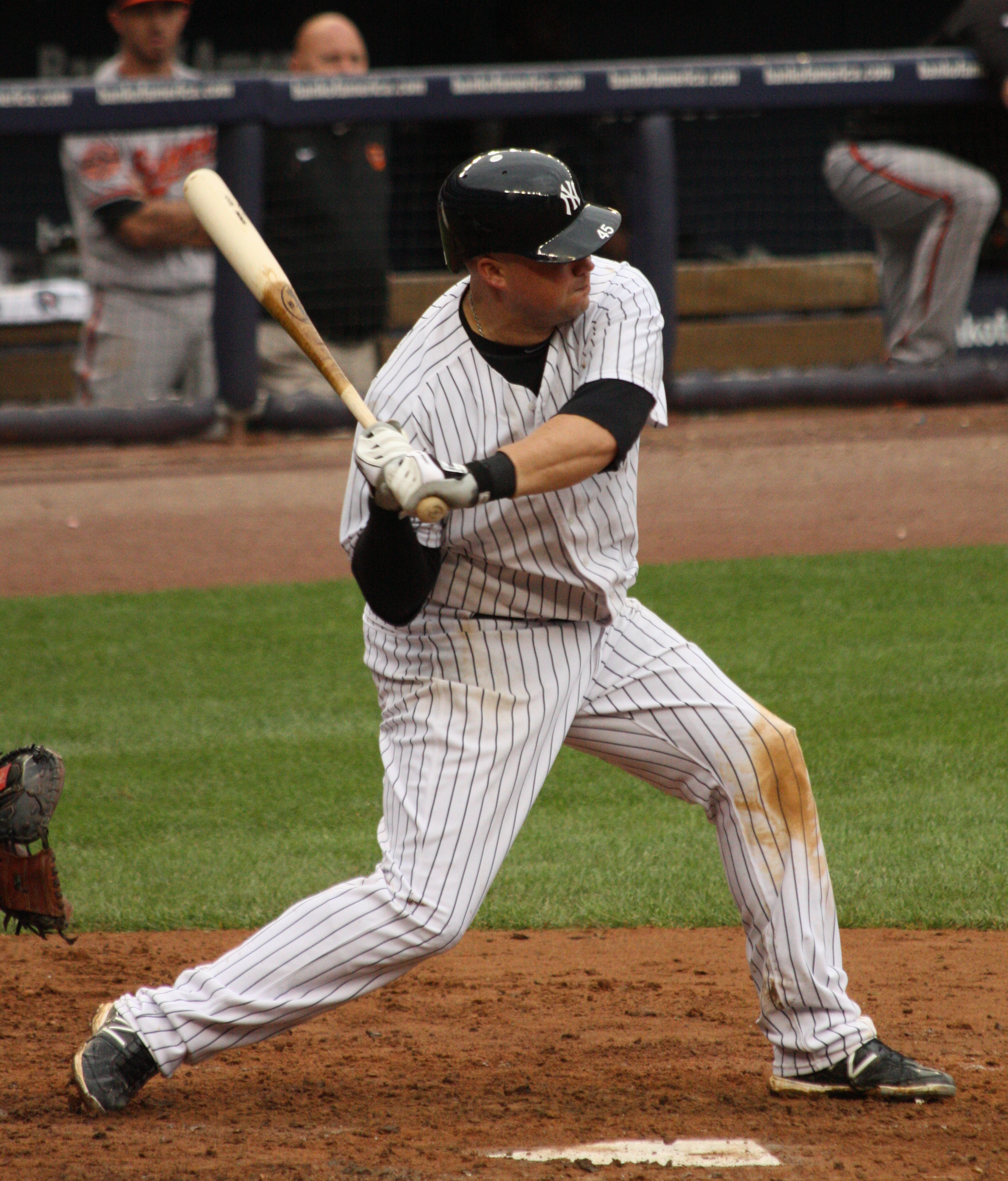 Casey McGehee